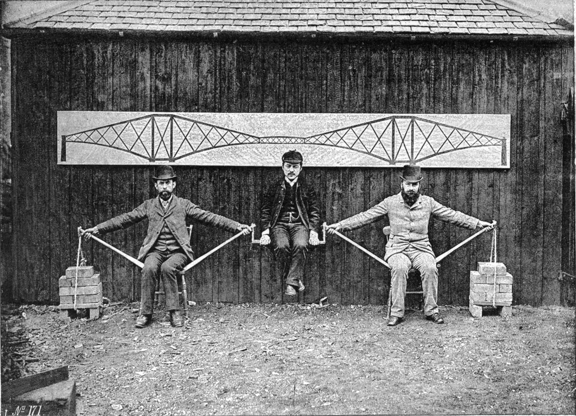 Forth Bridge (1890) Fig. 15A, Page 8